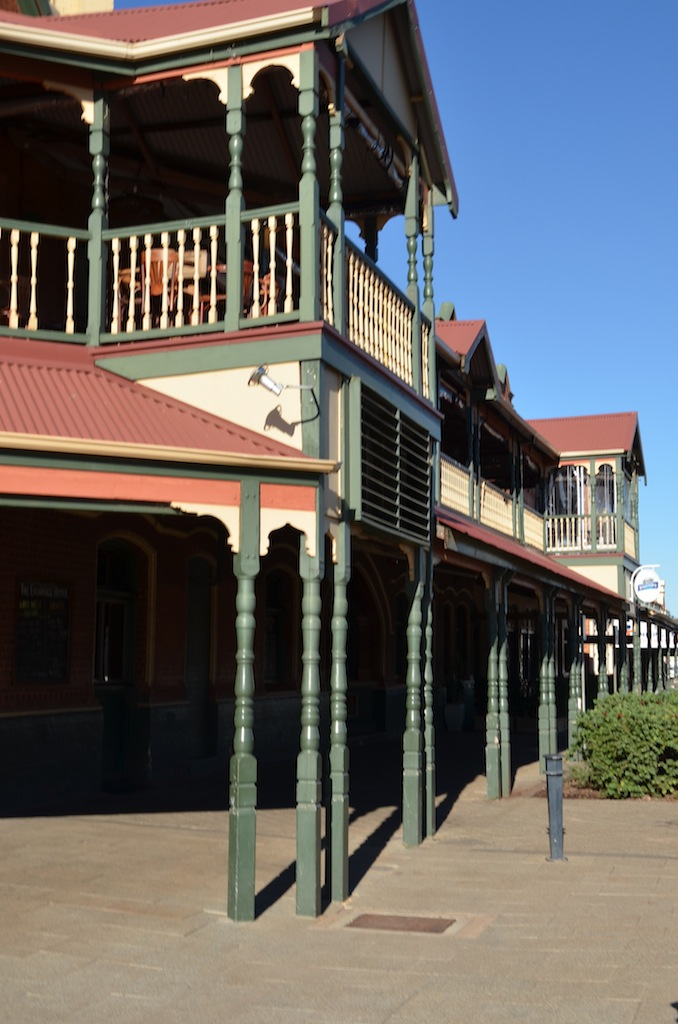 Exchange Hotel, Kalgoorlie, south balcony